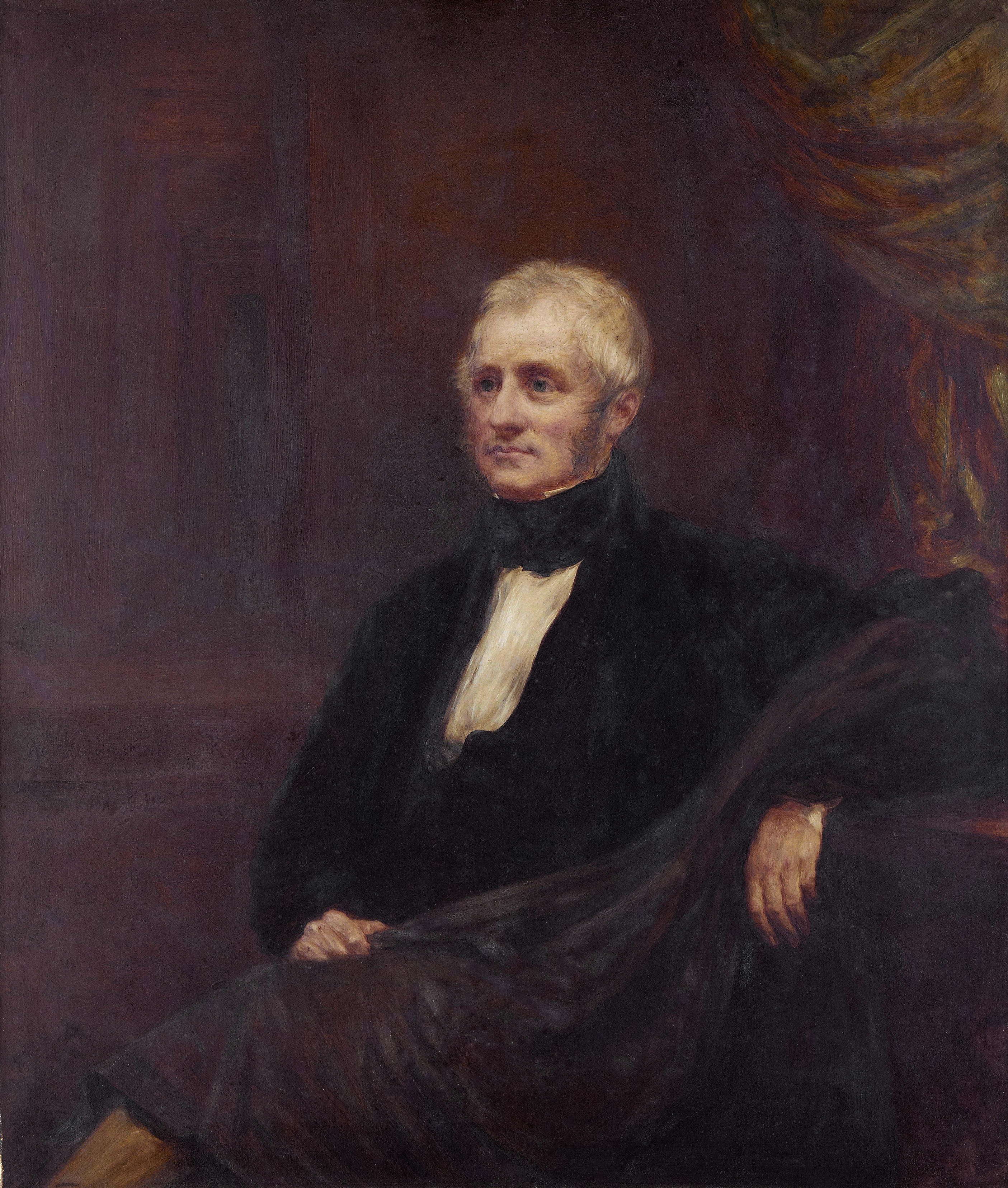 Henry Stephen Fox-Strangways, 3rd Earl of Ilchester oil on panel 53.5 x 44.5 cm signed: J LINNELL P 1848